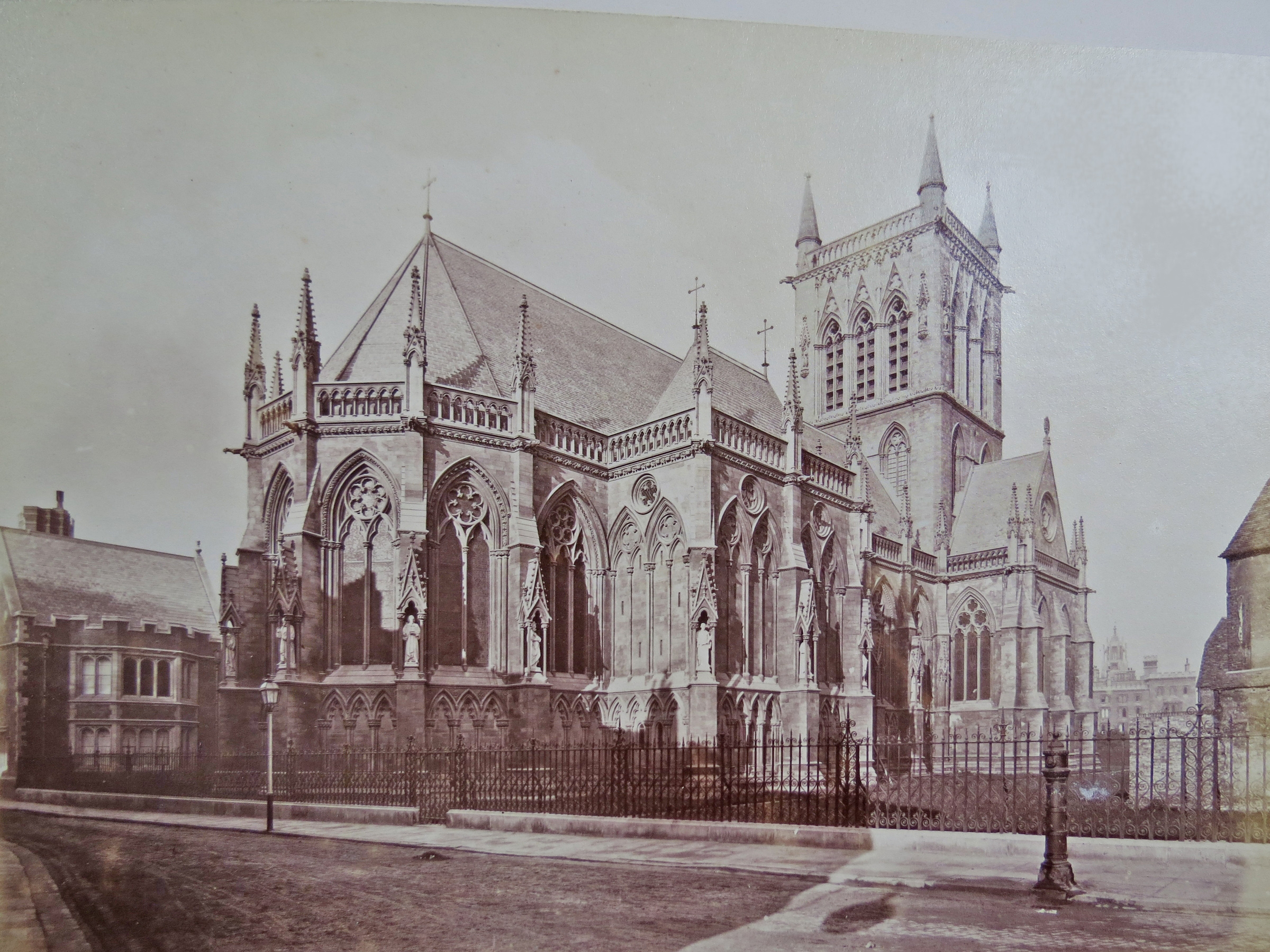 St. John's College, Cambridge University. Chapel, circa 1870. Image taken from original albumen print from a bound album of 58 Cambridge University photographs. Original 19th century album in the possession of Kimberly Blaker, New Boston Fine and Rare Books.